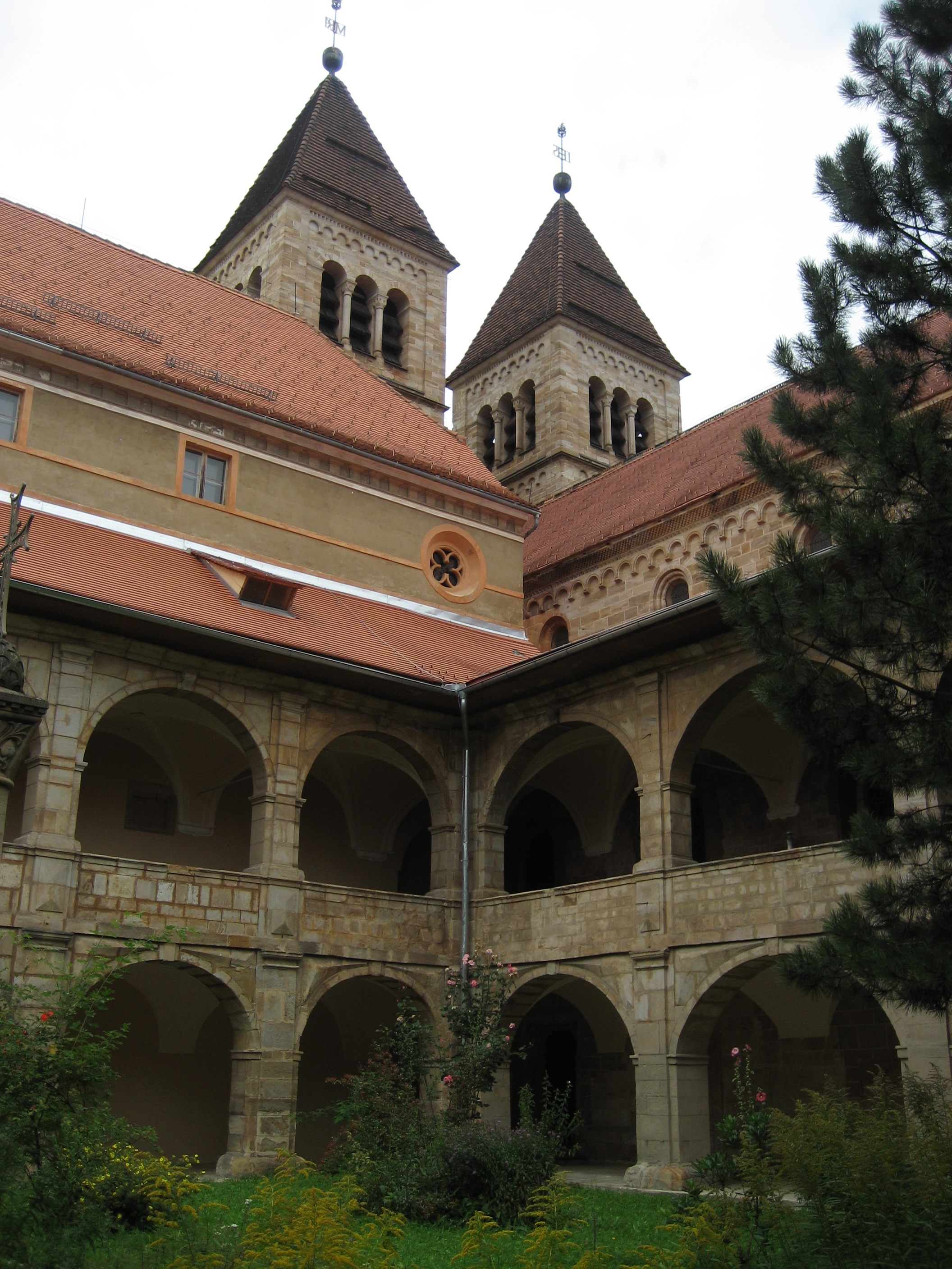 "Seckau" monastery, Styria, Austria, Europe